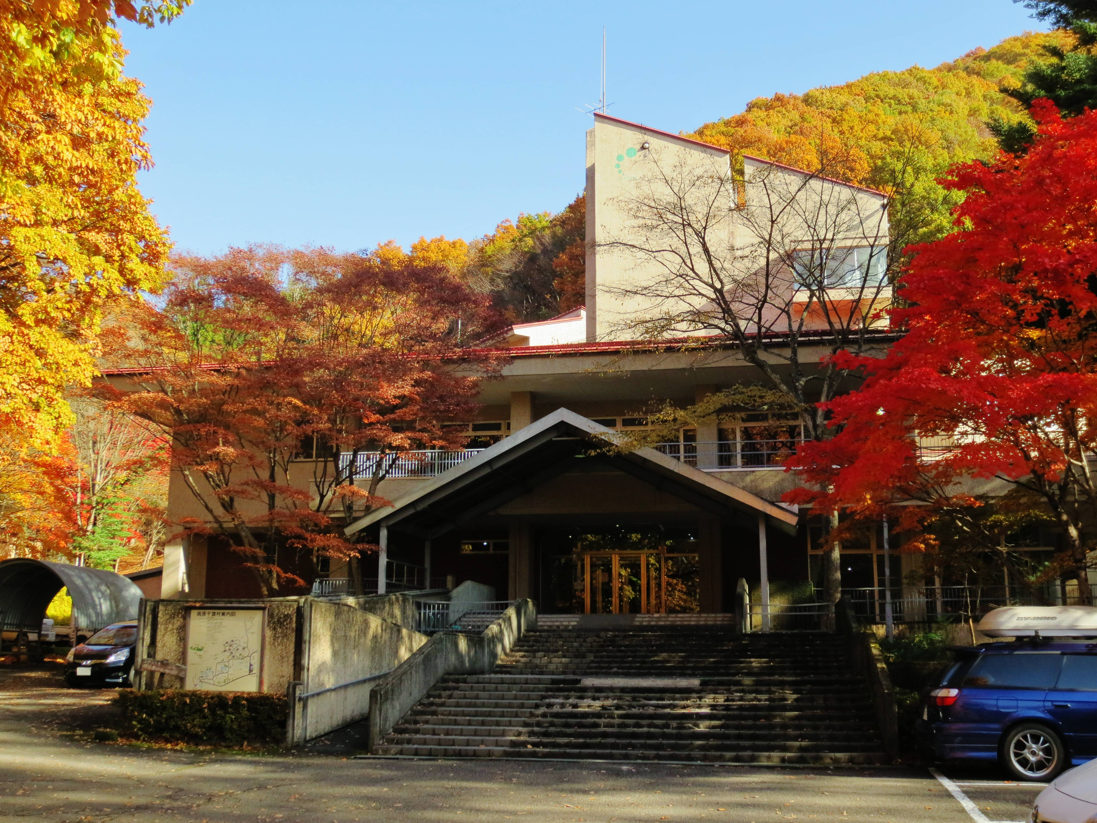 Kōgen Chibamura.